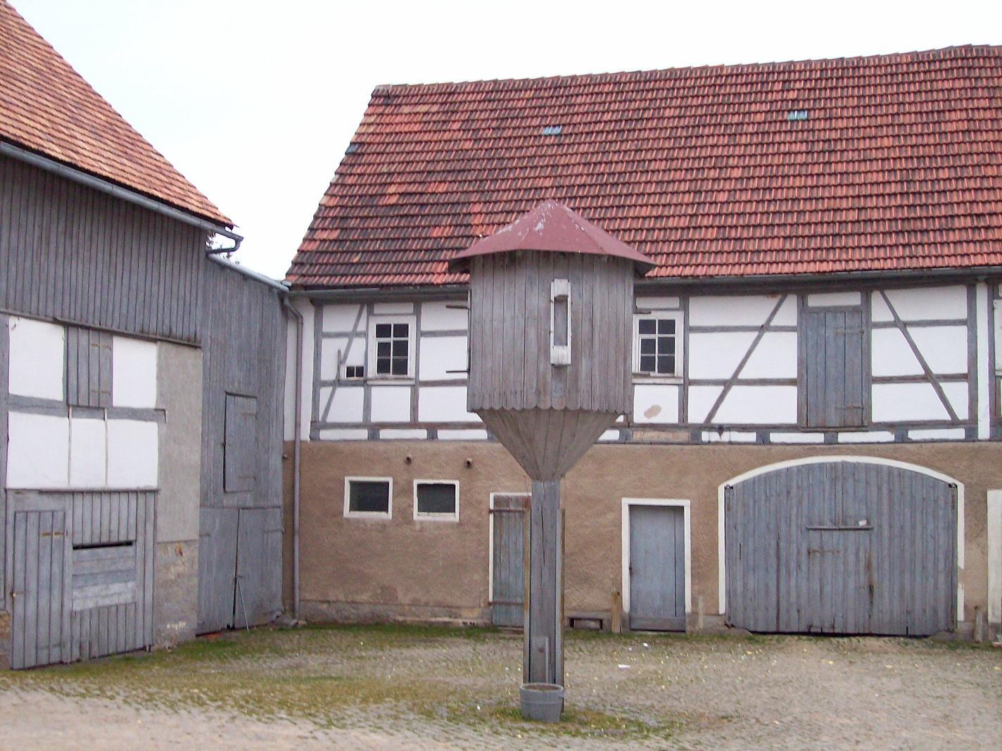 Farmhouse at the position of the former castle Burg Pohrsdorf.